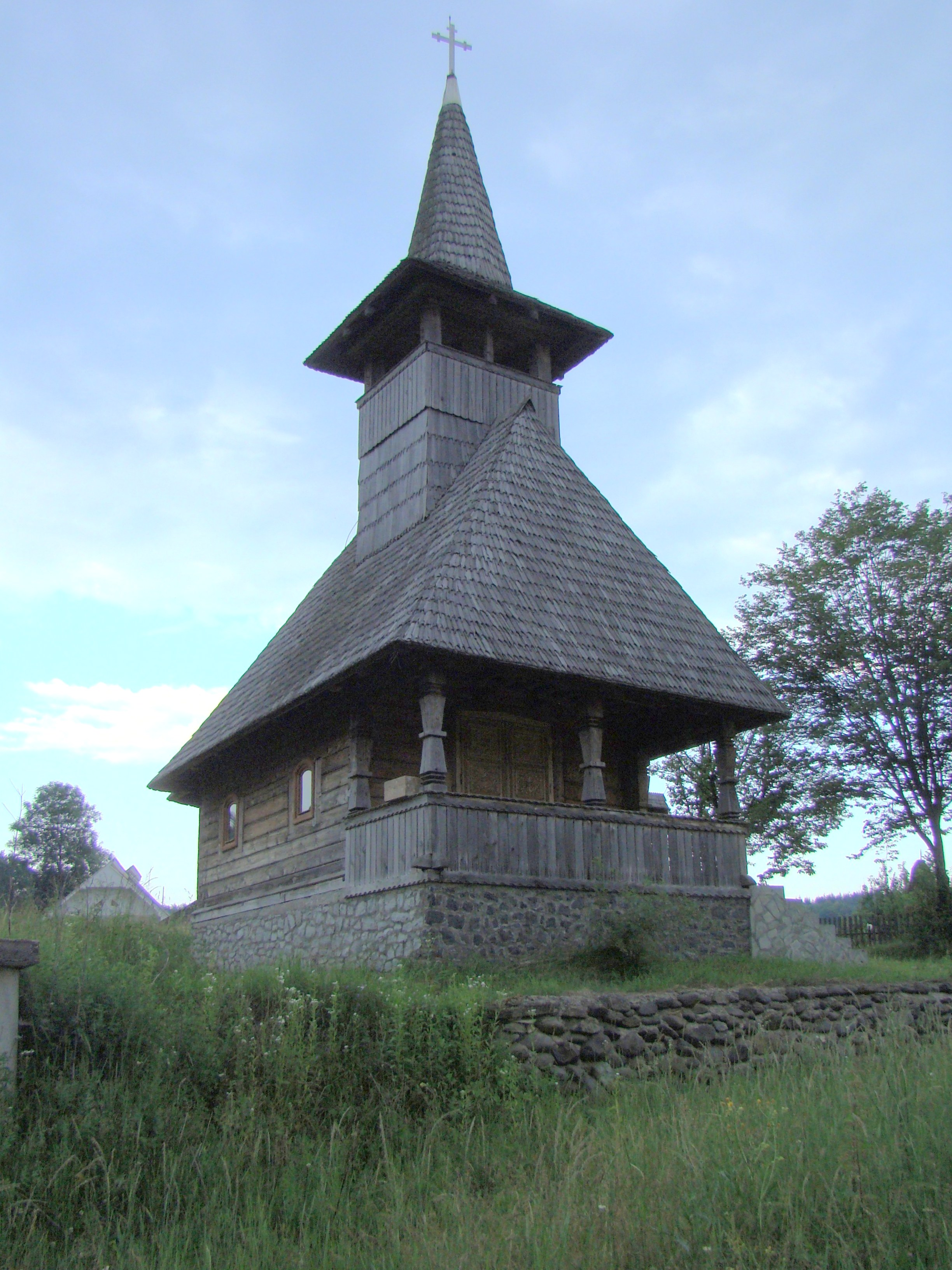 wooden orthodox church in Stoiceni, Maramureș County, Romania